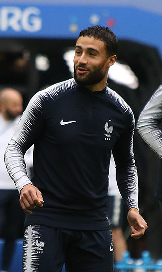 Fekir Training with France at the 2018 World Cup